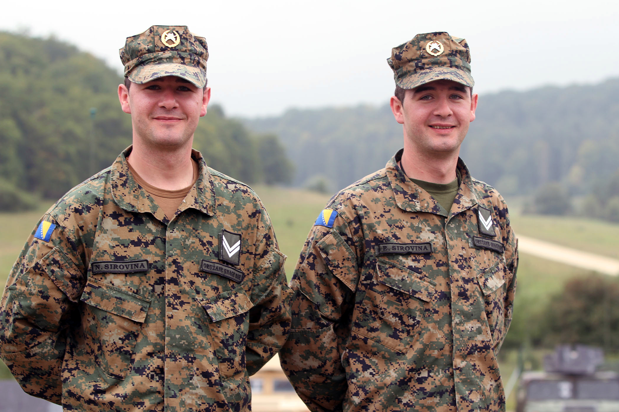 Twin Bosnian soldiers, both military police officers, pose for a photo during Saber Junction 2014 at the Hohenfels Training Area in Hohenfels, Germany, Sept. 2, 2014. The brothers have served together for six years. Saber Junction is a U.S. Army Europe-led exercise designed to prepare U.S., NATO and international partner forces for unified land operations.